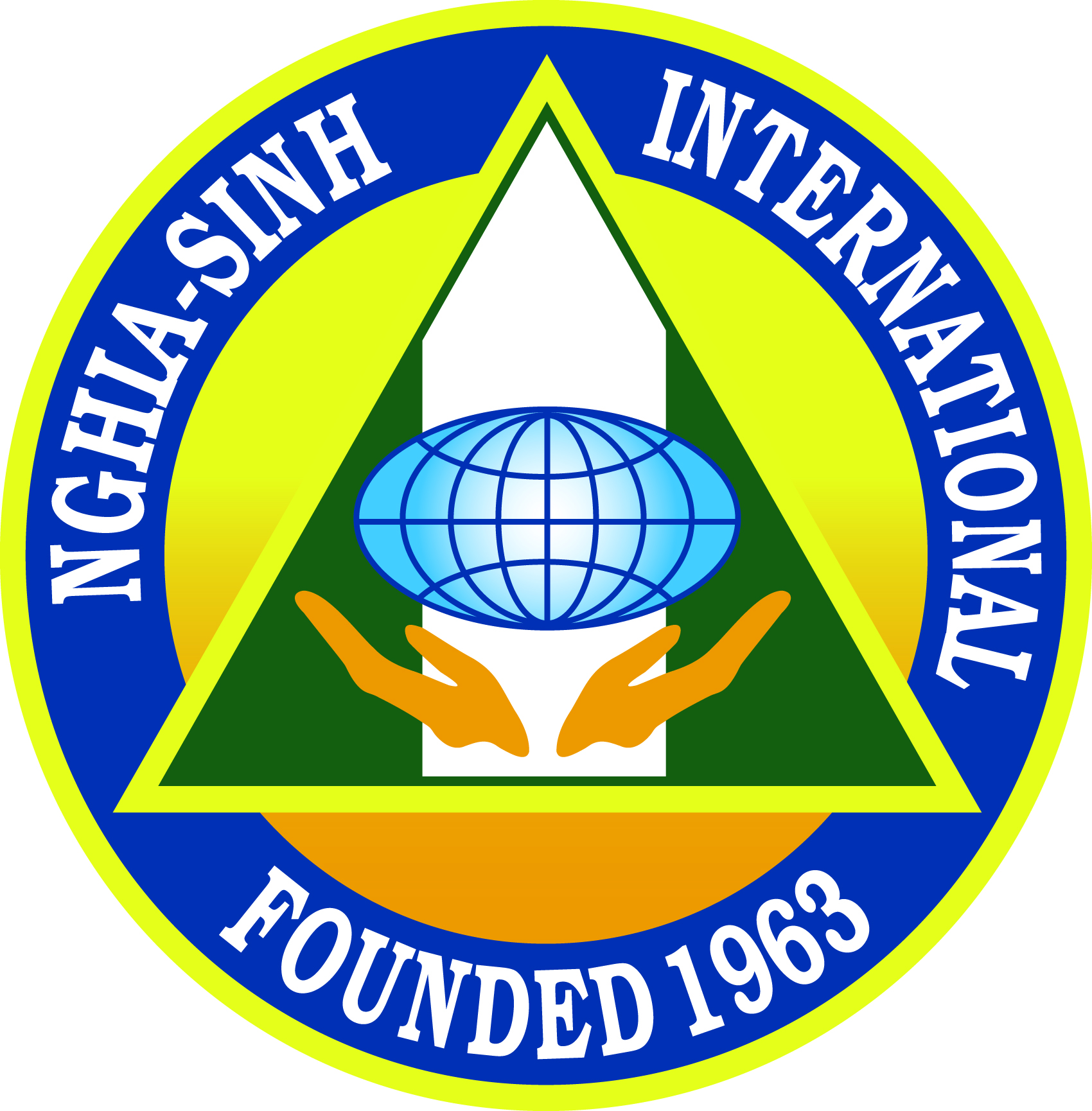 Nghia Sinh Logo 1963